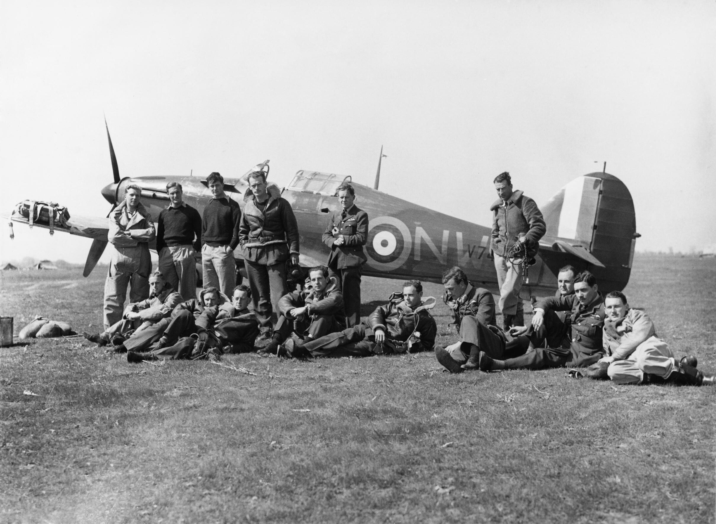 IWM caption : Pilots of No. 33 Squadron RAF, at Larissa, Greece, with Hawker Hurricane Mark I, V7419, in background. Standing (left to right); Pilot Officers W Winsland R Dunscombe (p.o.w 22 May 41) C A C Chetham (k.i.a. 15 April 41) P R W Wickham Flying Officers D T Moir H J Starrett (died of burns 22 April 41) sitting (left to right) Flying Officer E J "Timber" Woods (k.i.a. 17 June 41) Flying Officer F Holman (k.i.a. 20 May 41) Flight Lieutenant A M Young Flying Officer V C "Woody" Woodward Squadron Leader M St J "Pat" Pattle (Squadron Commanding Officer, k.i.a. 20 May 41) Flying Officer E H "Dixie" Dean Flight Lieutenants J M "Pop" Littler G Rumsey (Squadron Adjutant) Pilot Officer A R Butcher (p.o.w. 22 May 41)